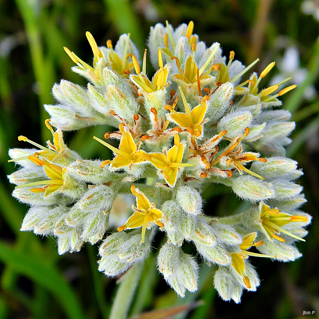 My yearly homage to Carolina redroot (also called bloodroot). This interesting wetland plant is a member of the bloodwort family (Haemodoraceae) and produces a unique inflorescence of yellow flowers that attract nectaring insects. The fan shaped foliage is also very attractive. Sandhill Cranes love to eat the seeds. A large wet meadow of them bloomed this year by the little frog & duck pond in Juno Dunes Natural Area (south). Native Americans had several medicinal uses for the plant and it's sap has been used for dye.